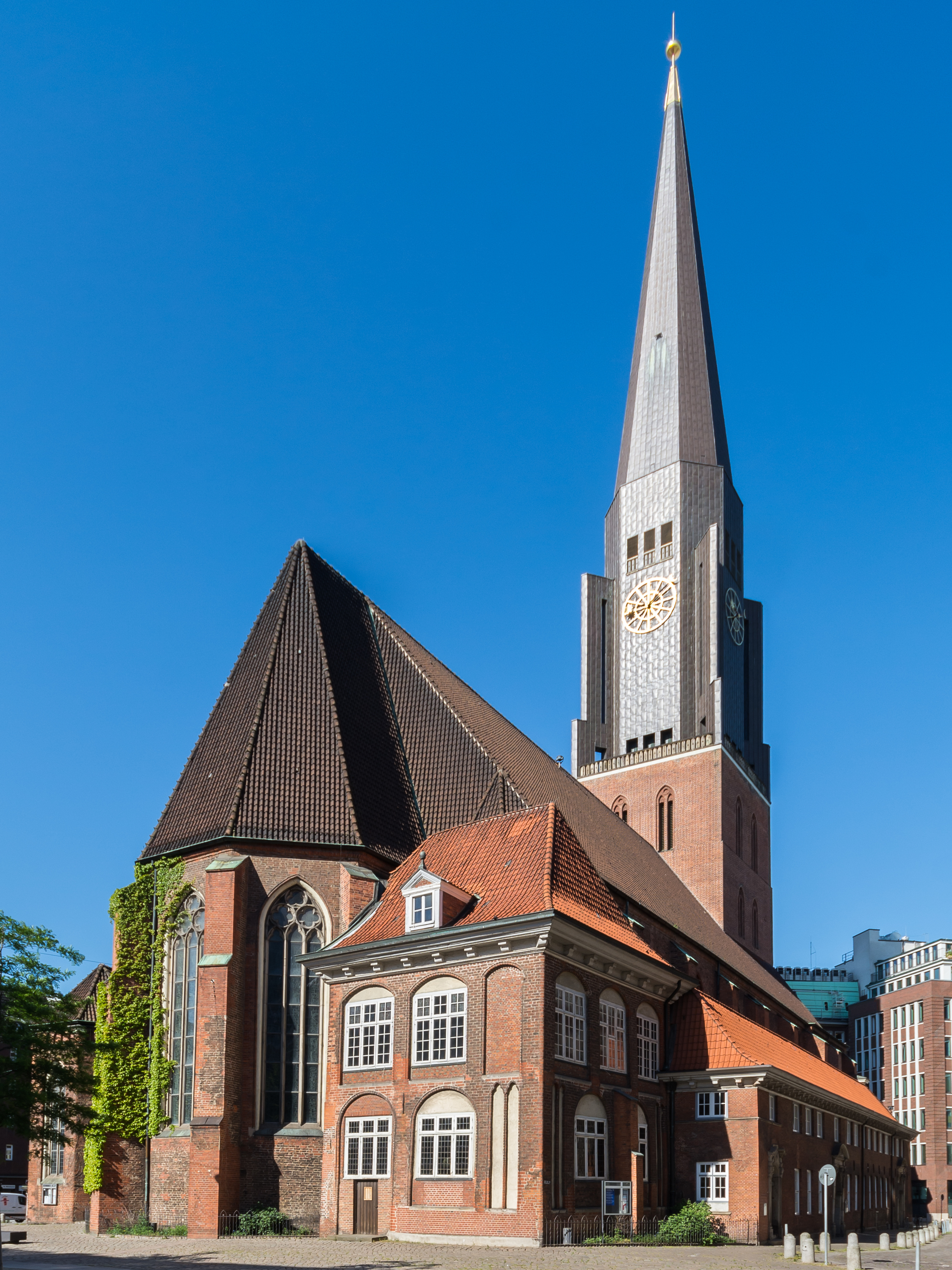 St. Jacobi church in Hamburg. This is a photograph of an architectural monument.